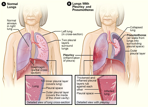 Figure A shows the location of the lungs, airways, pleura, and diaphragm (a muscle that helps you breathe). The inset image shows a detailed view of the two pleural layers and pleural space. Figure B shows lungs with pleurisy and pneumothorax. The inset image shows a detailed view of an infected lung with thickened and inflamed pleural layers.